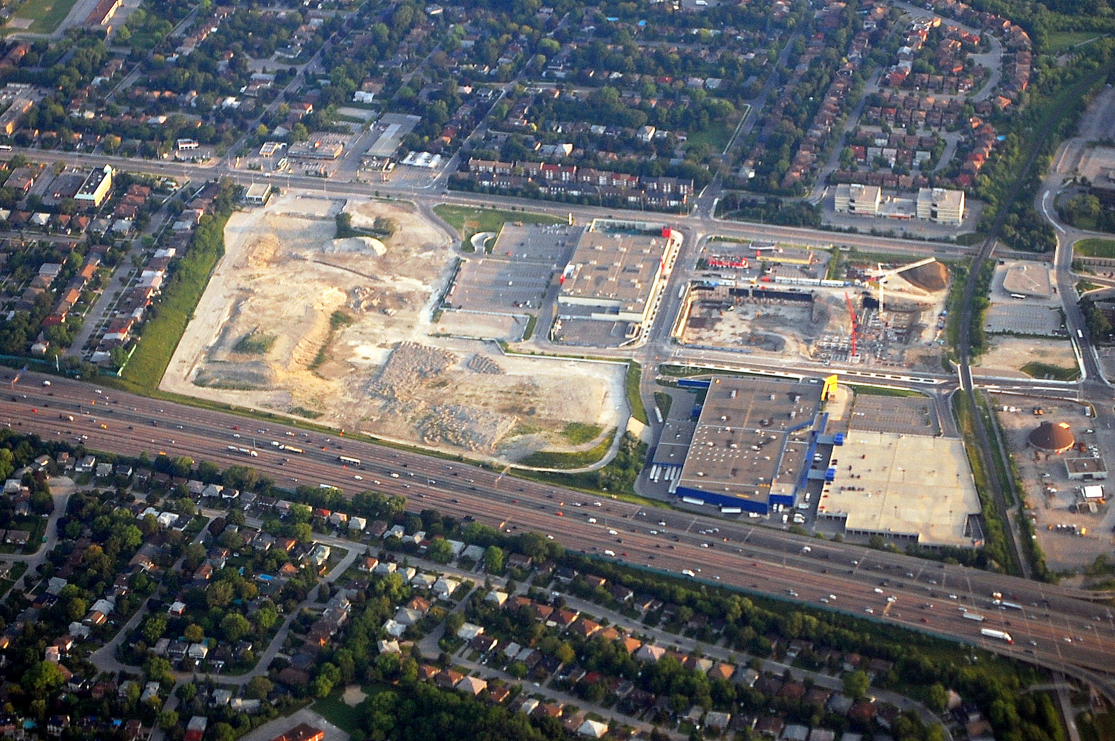 A 2009 aerial view of the Concord Park Place construction site, as well as Bessarion and Leslie TTC stations, IKEA, and Canadian Tire.